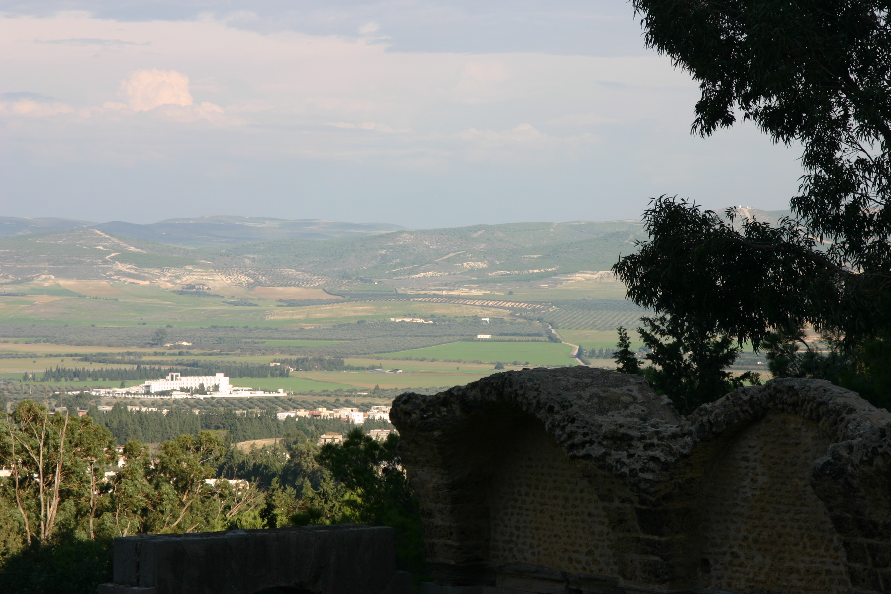 This photo shows the Zaghouan plain.